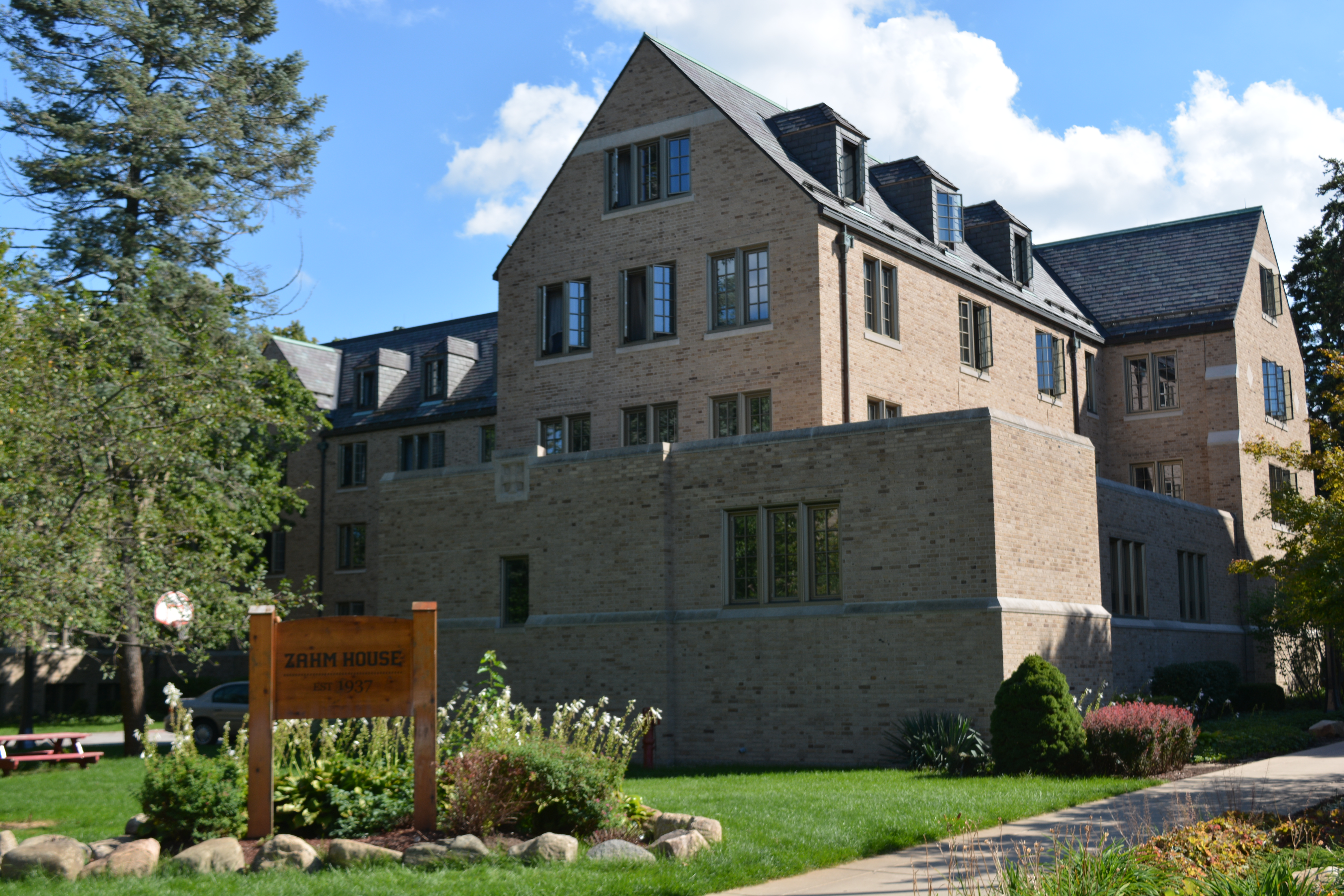 Zahm House - University of Notre Dame